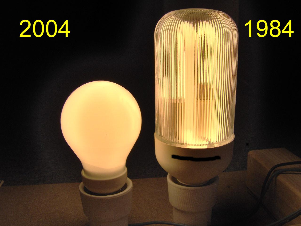 Energy saving lamps im Vergleich. The worst generation in 1984, nor my convention, Vorschaltgerät und Glimmzünder. Daneben eine moderne Energiesparlampe mit Elektronischem Vorschaltgerät und Glühlampenbauform.